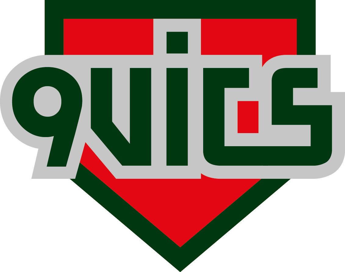 NineVics Women's Baseball Team Emblem